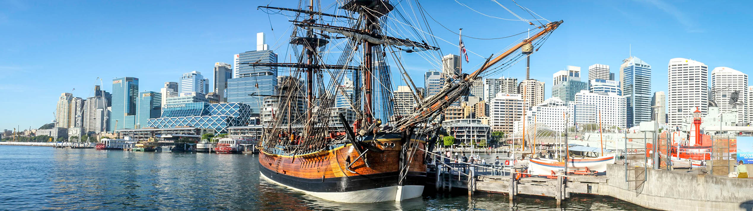 HM Bark Endeavour Replica in Darling Harbour, Sydney